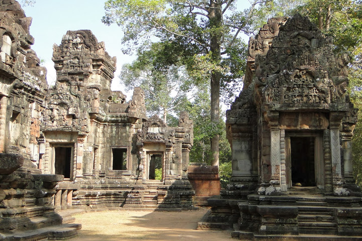 Chau Say Tevoda